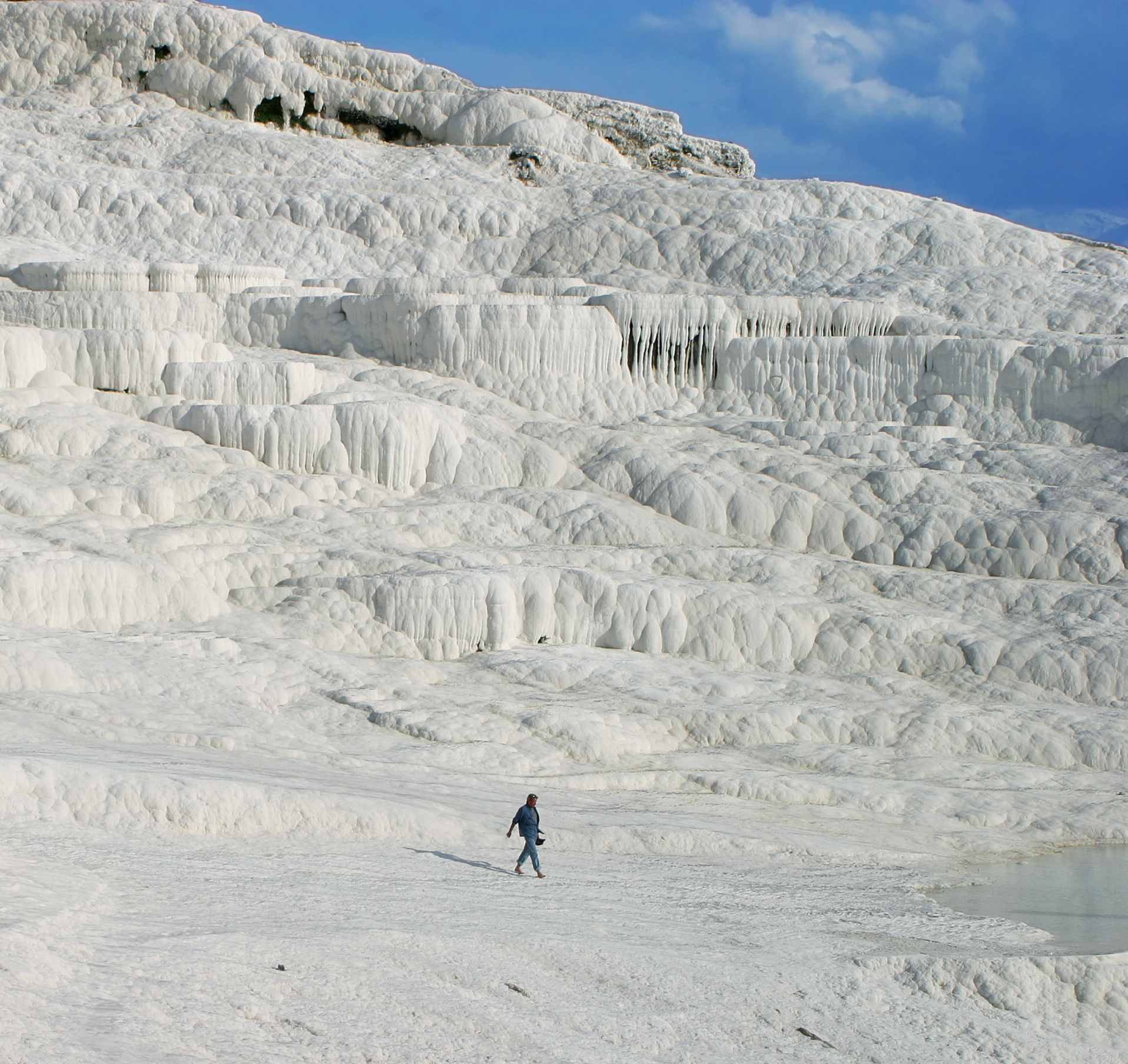 A hanging limestone walls and hot springs at Pamukkale